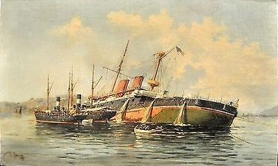 HMS Howe being salvaged by HMS Seahorse for towing into Emsenanda de la Malata This is one of a pair with the painting in the UK, "National Maritime Museum" which follows on from this particular scene. See RMG BHC3410.